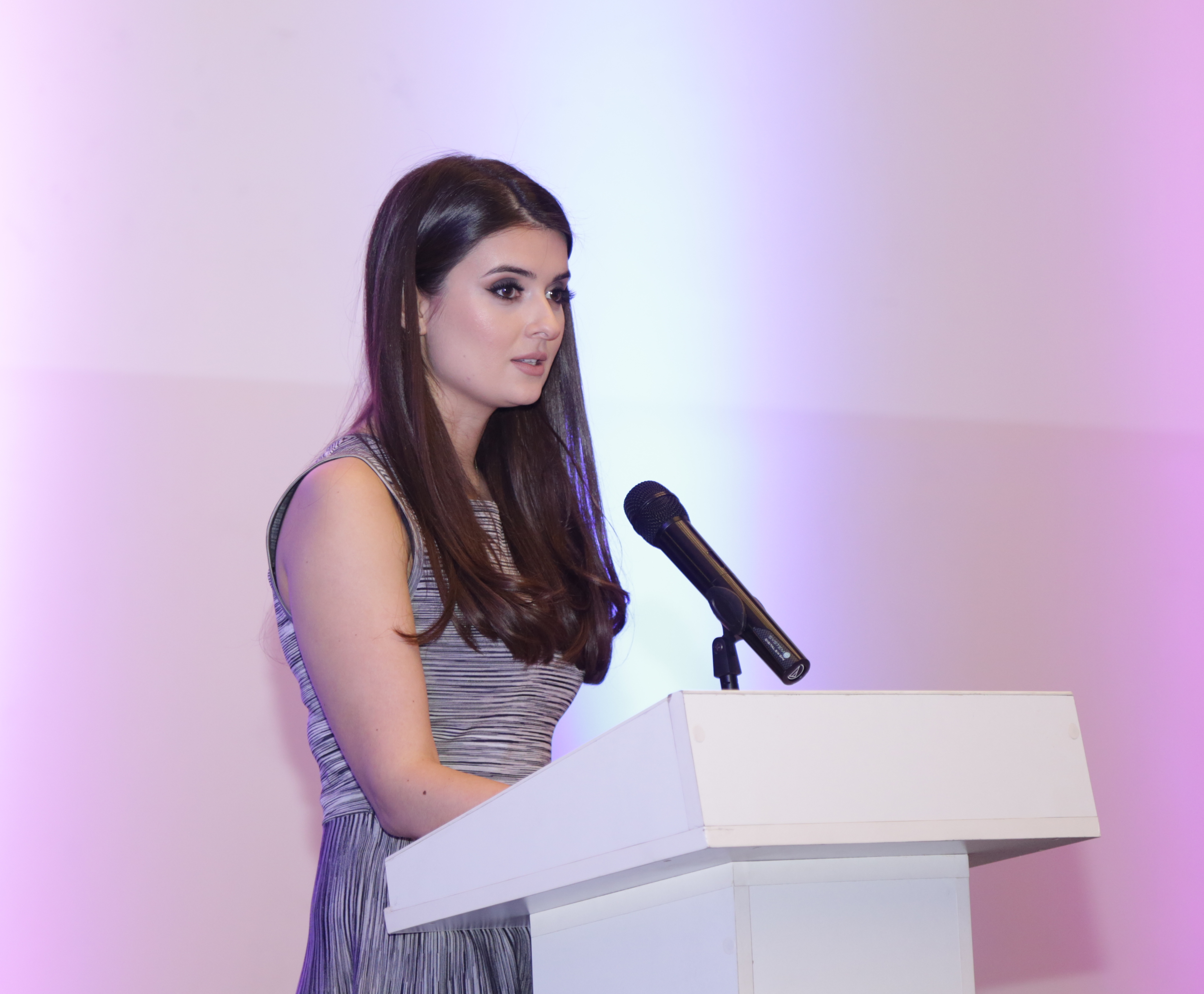 Teach For Armenia Ambassador Induction Ceremony 2017 Depicted person: Larisa Hovannisian – Armenian American social entrepreneur and education activist